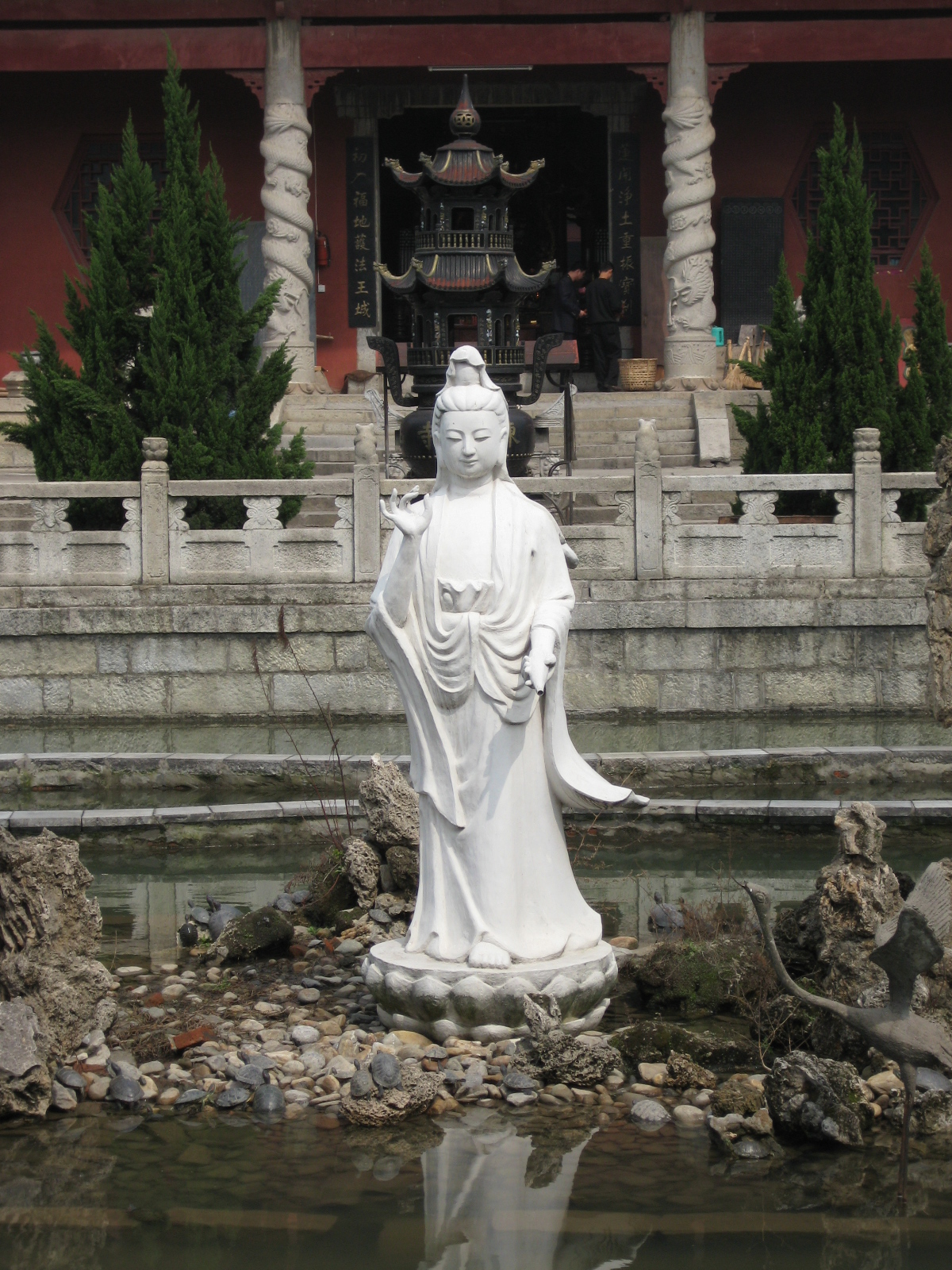 Guanyin statue in Donglin Temple in Jiujiang, Jiangxi, China. 2008-03-20